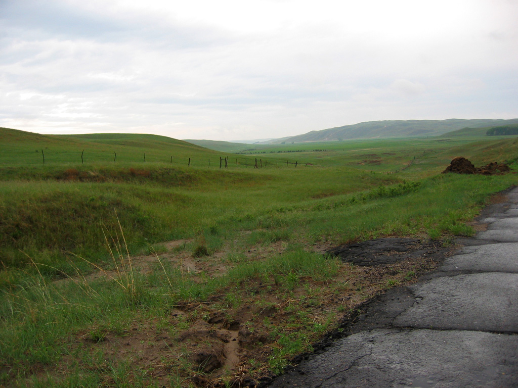 Photograph of the Sand Hills of Nebraska.